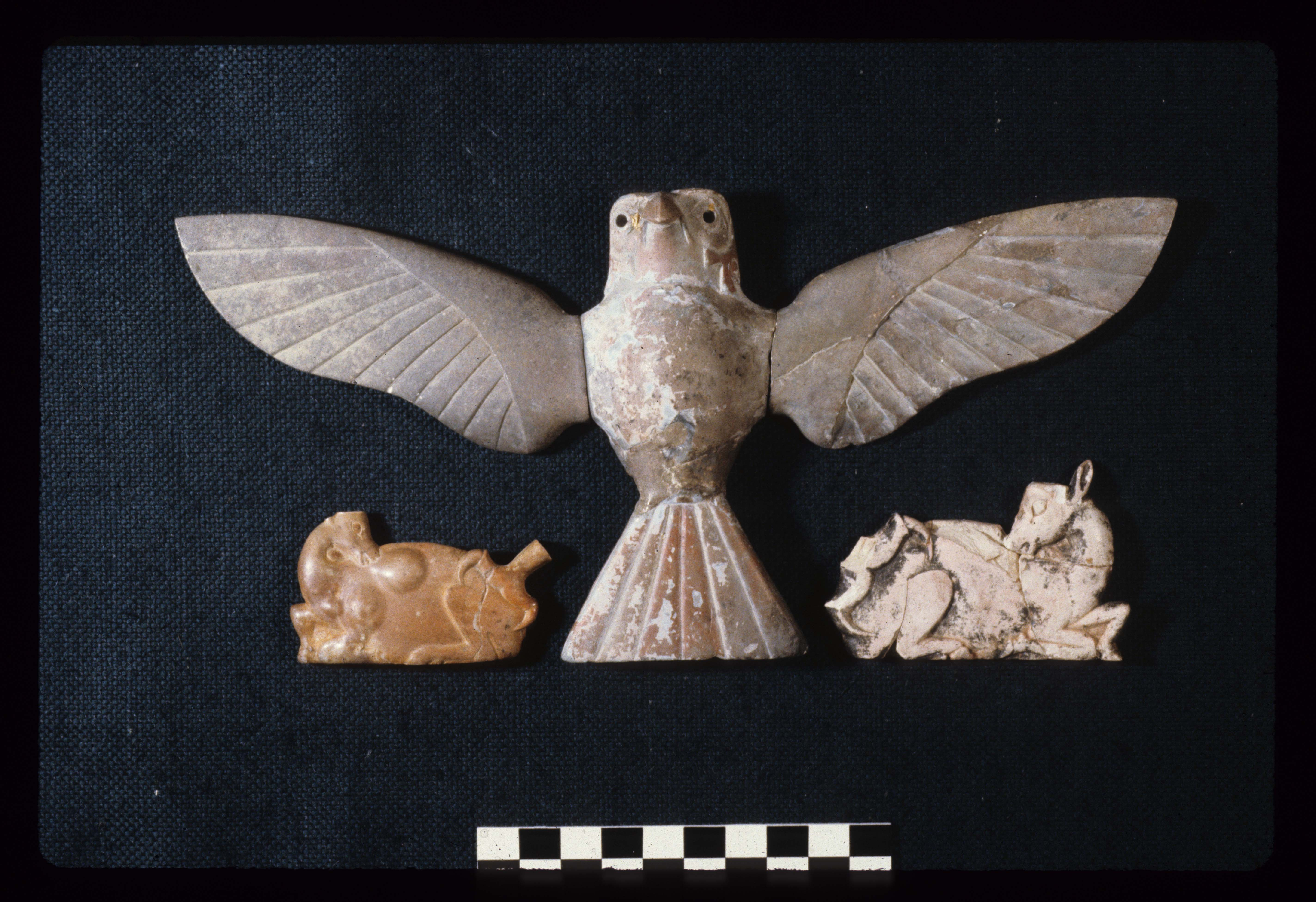 Ivory falcon and gazelles (Pratt ivories) in the Metropolitan Museum of Art, New York, NY. These belonged to an ivory chair from the site of Acemhöyük, Turkey. 19th-18th century B.C. Photograph Elizabeth Simpson.